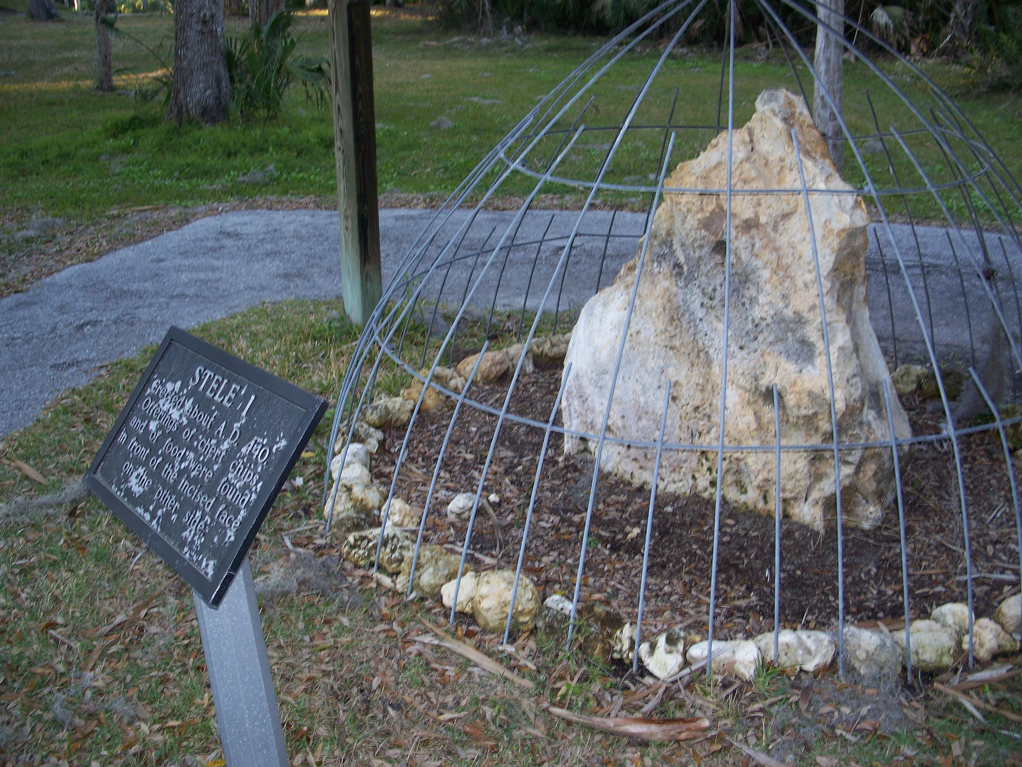 Stele remains in the Crystal River Archaeological State Park, in Crystal River, Florida